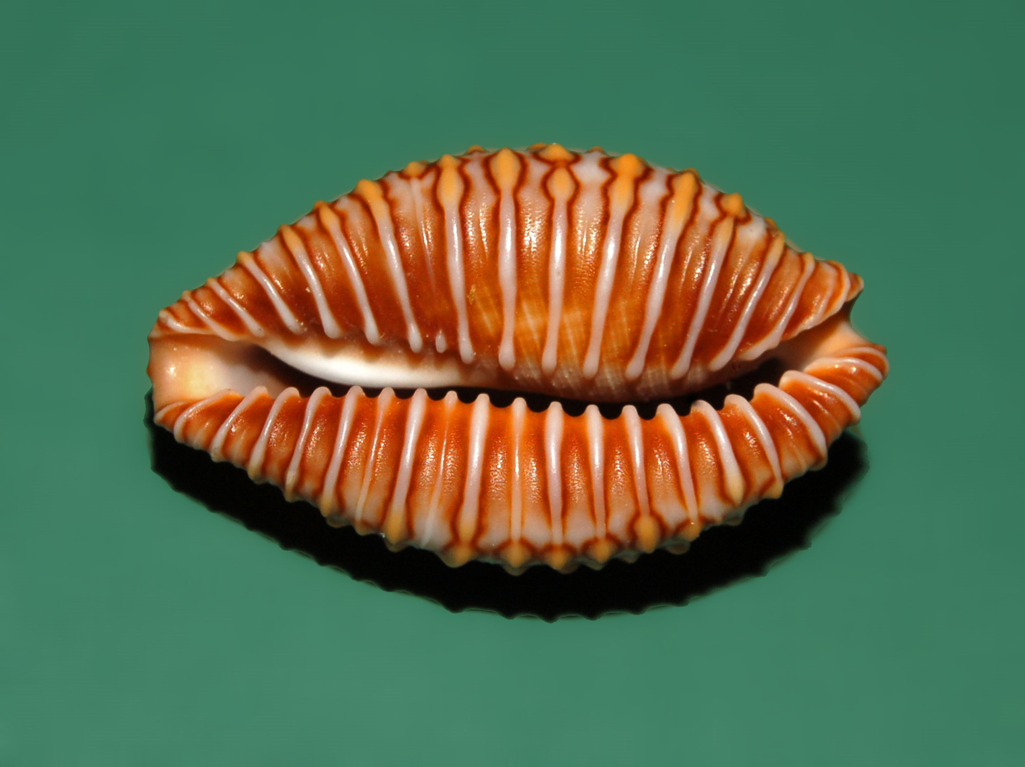 Jenneria pustulata